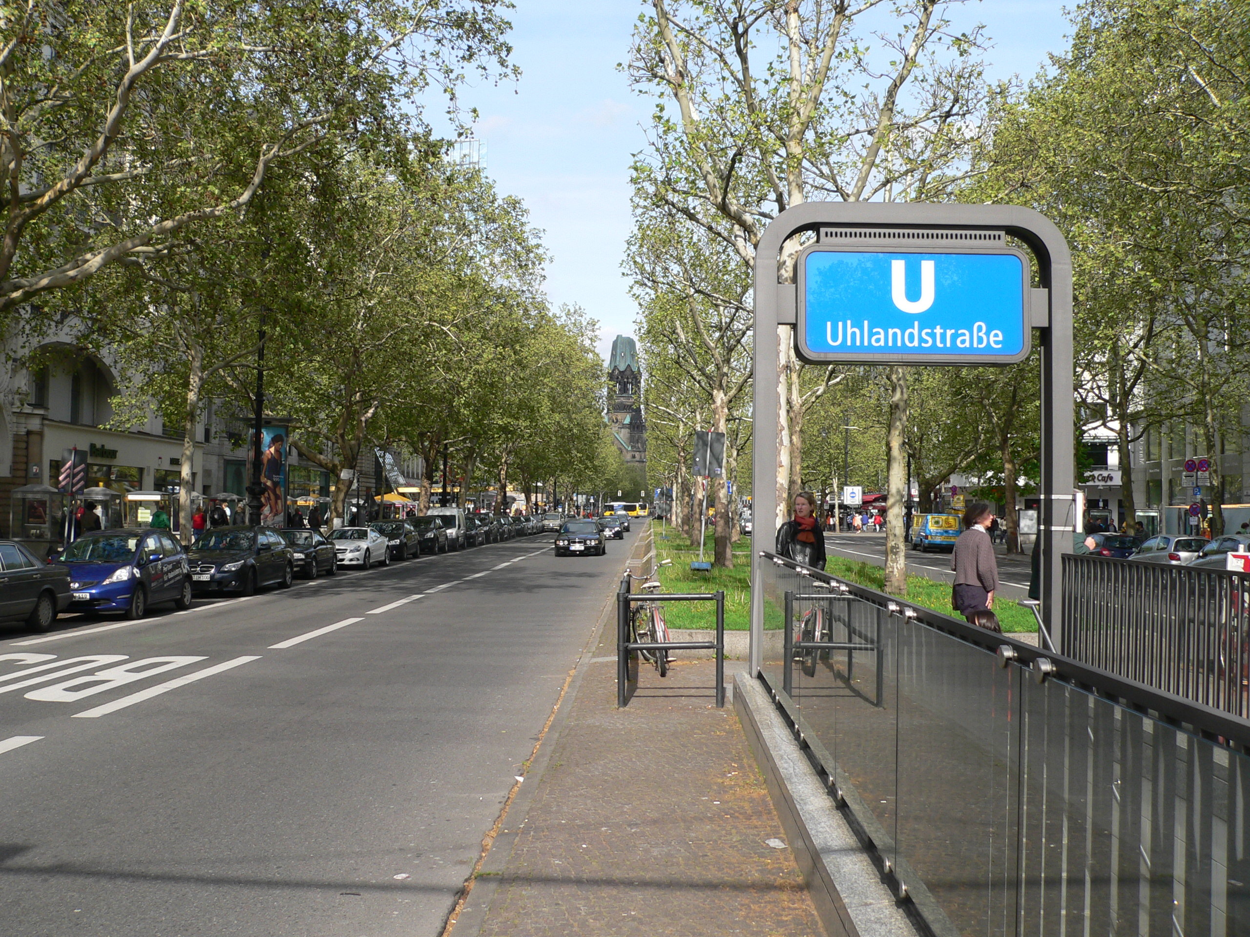 Berlin-Charlottenburg U-Bahnhof Uhlanstraße Entrance at Kurfürstendamm und Fasanenstraße